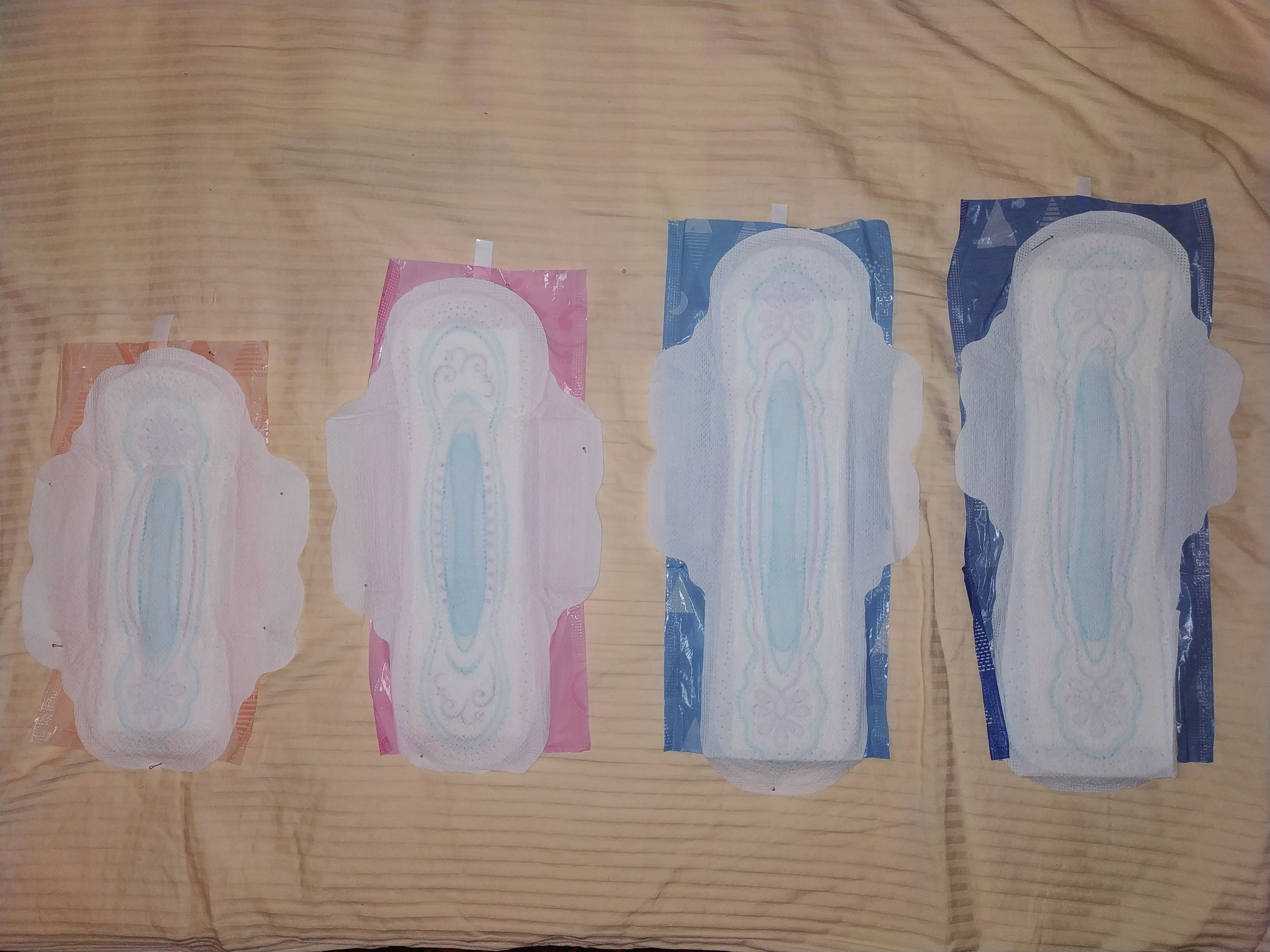 allm sizes